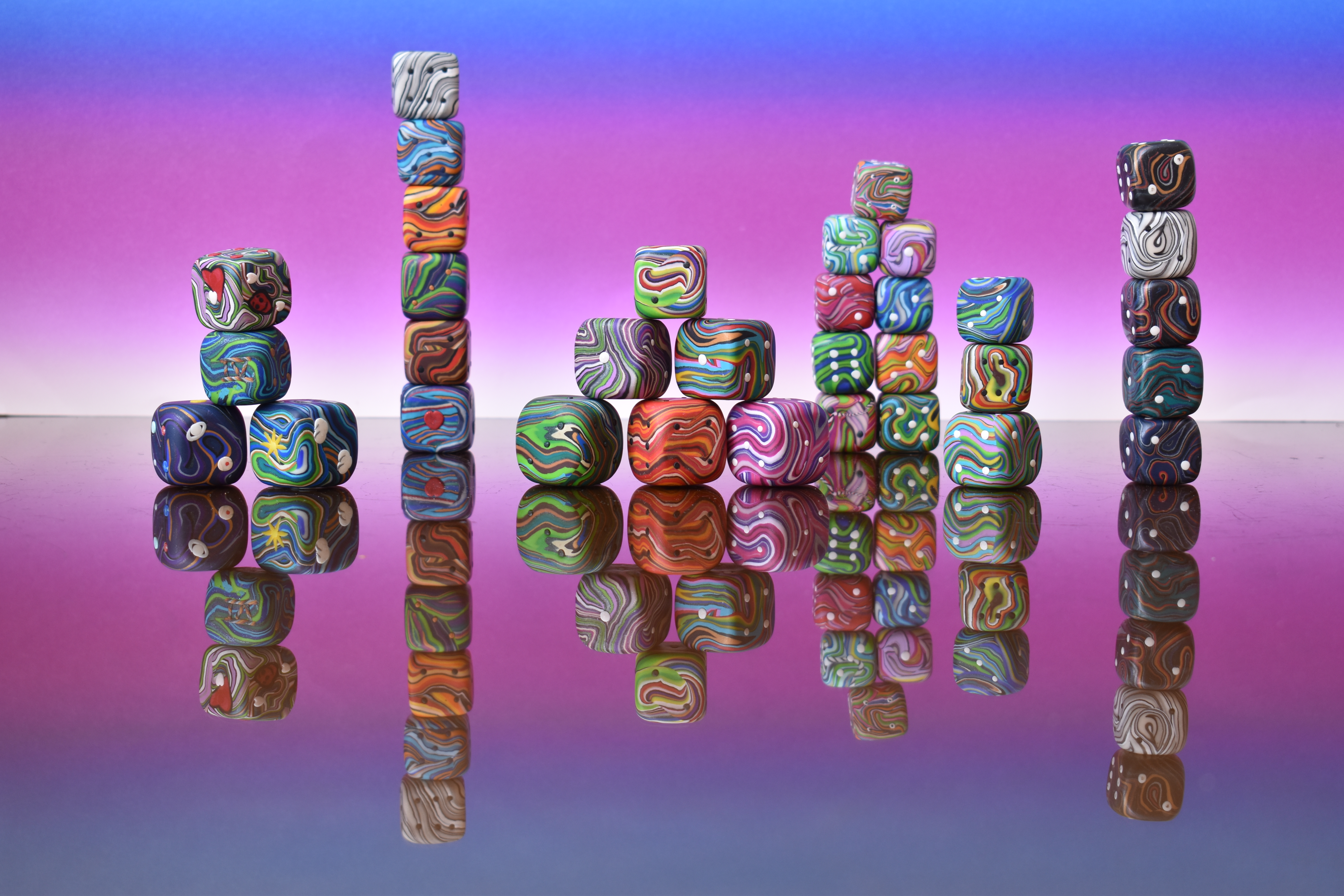 A collection of handmade dice of various sizes, colours and designs.